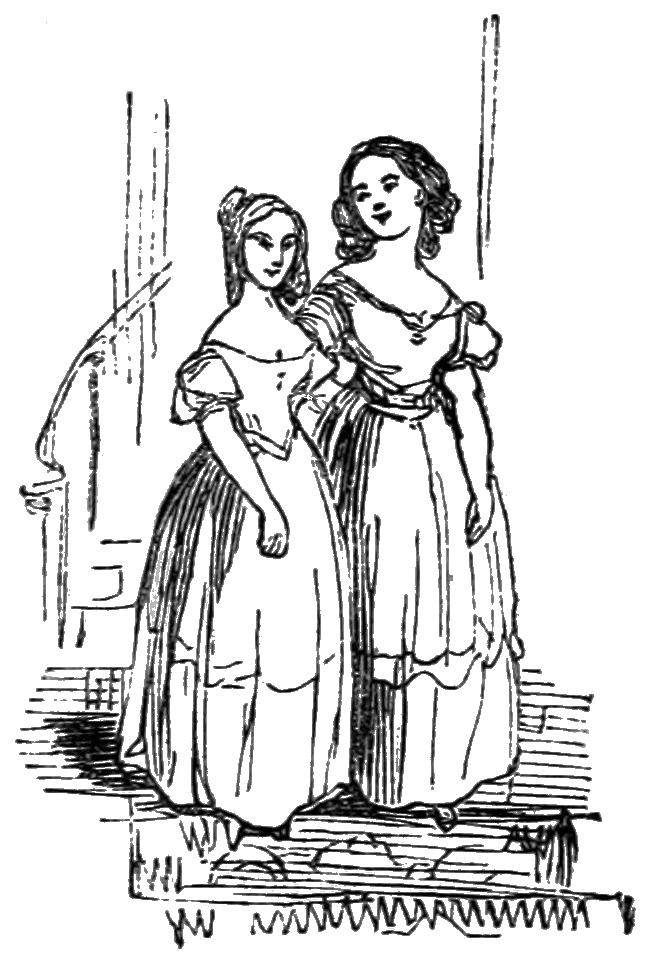 Amelia and Rebecca as girls.Untitled image from the novel. The number indicates the Djvu page number of the Wikisource transclusion.